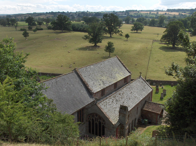 St Oswald's parish church, Kirkoswald, Cumbria, seen from the northeast